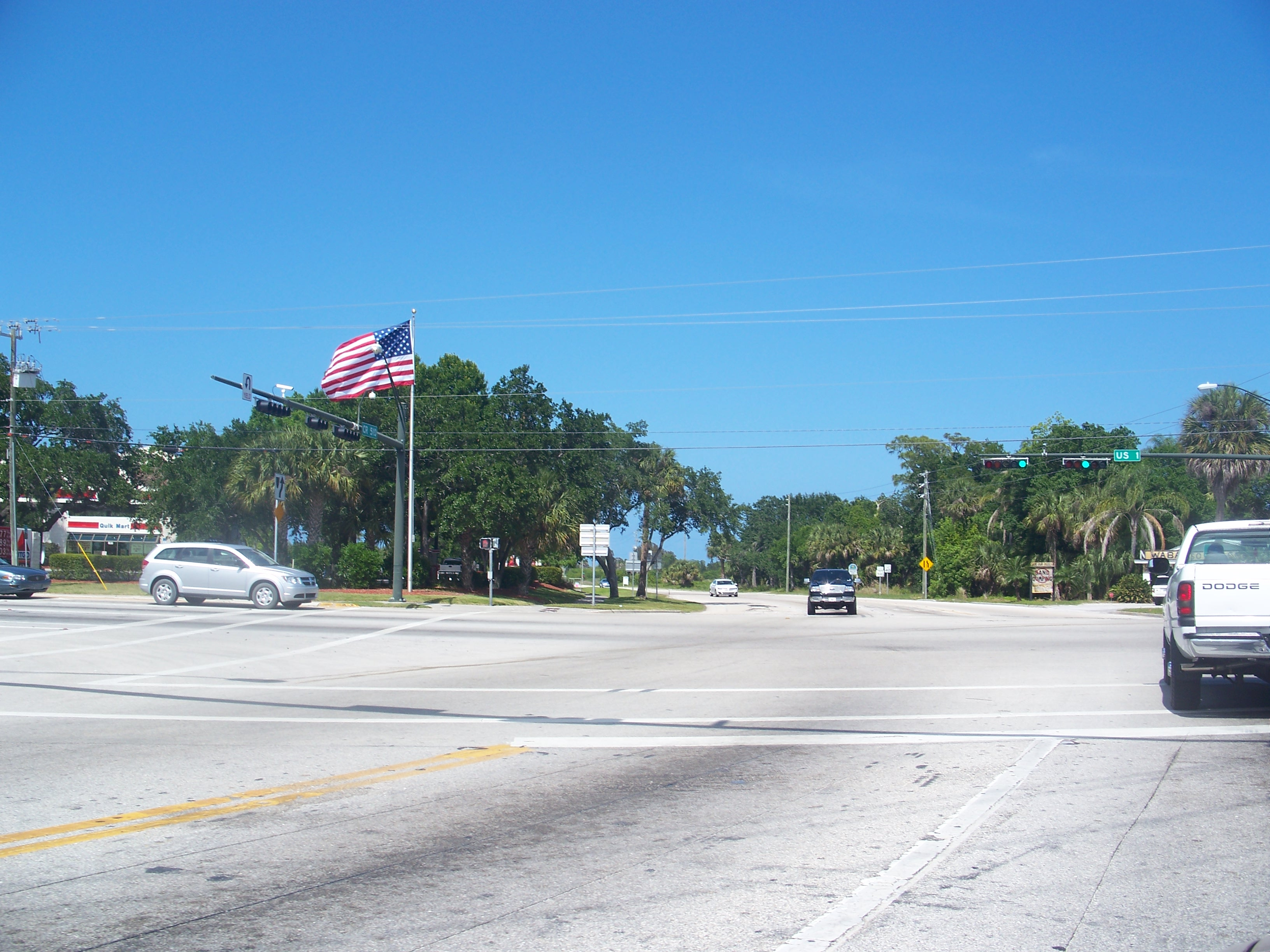 Wabasso, Florida: County Road 510 and U.S. 1, part of the Indian River Lagoon Scenic Highway